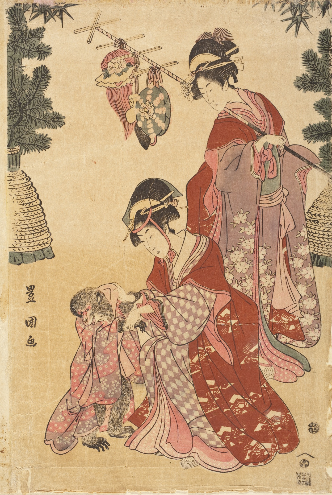 circa 1800 Prints; woodcuts Color woodblock print; one panel of a triptych Image: 15 5/16 x 10 in. (39 x 25.4 cm); Sheet: 15 5/16 x 10 5/16 in. (39 x 26.2 cm) The Joan Elizabeth Tanney Bequest (M.2006.136.322) Japanese Art